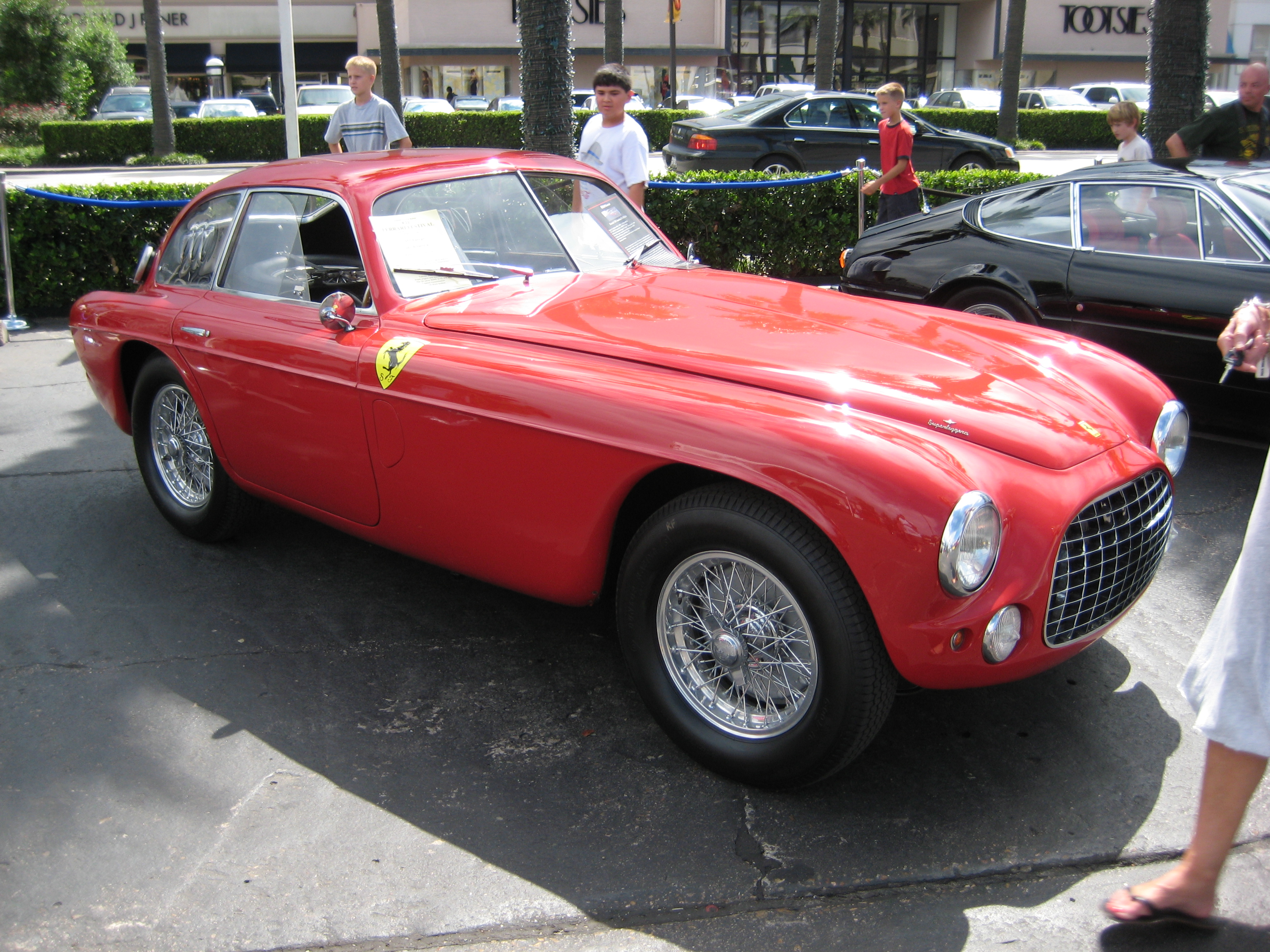 From info sheet: "Production Run: 1950 - 1952 Number Produced: 23"